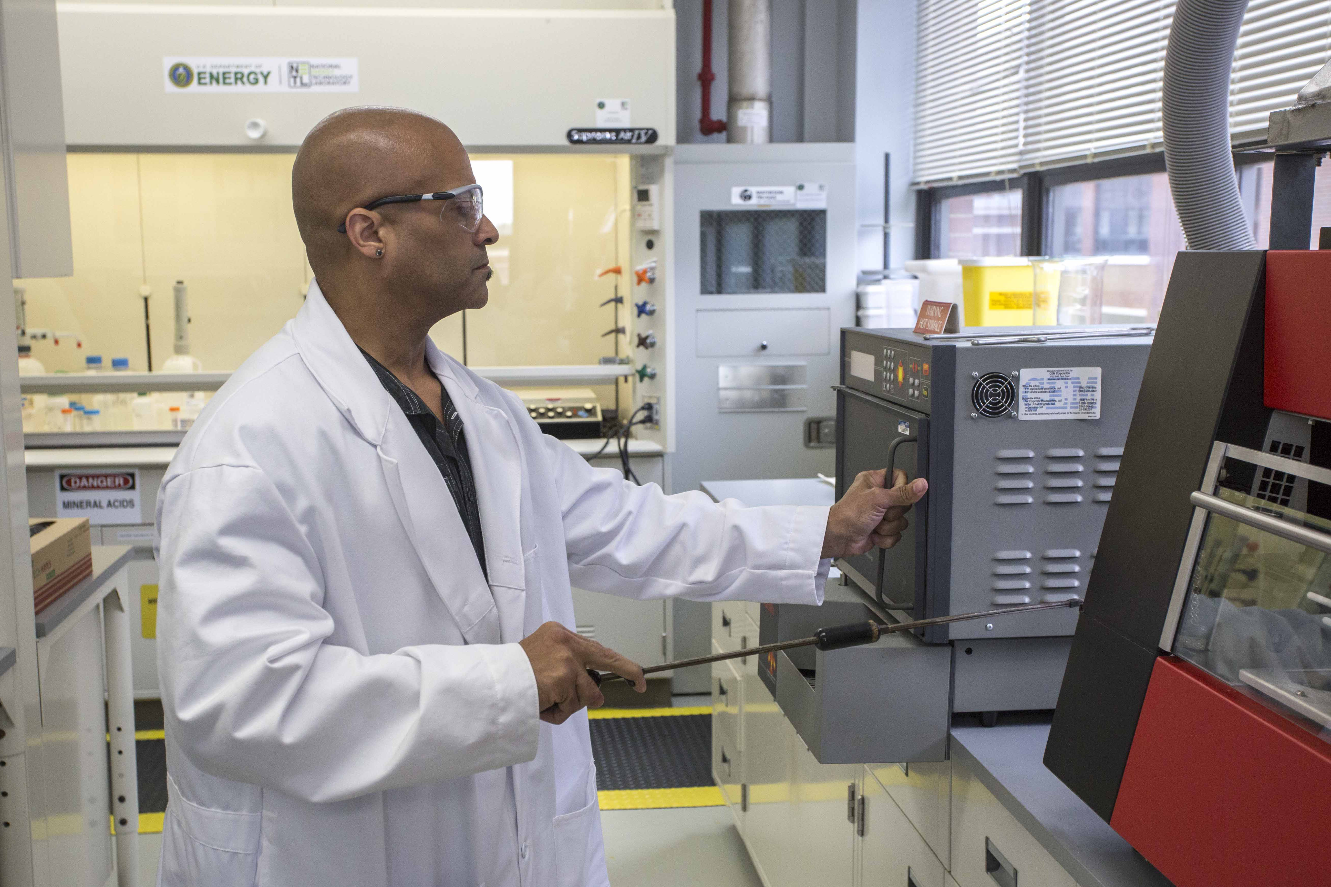 Photo Simon Edelman, Energy Department